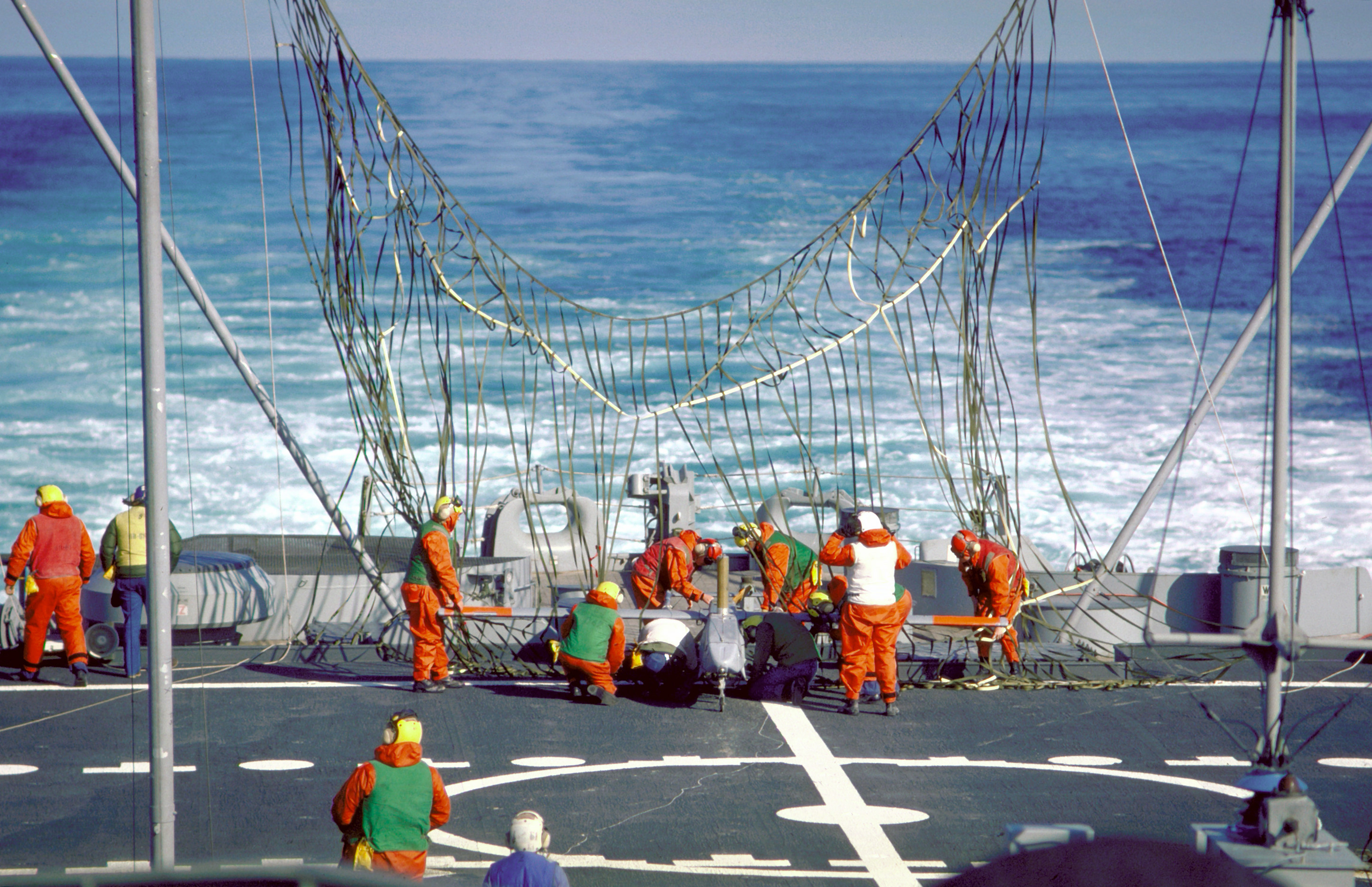 Crewmen disengage a Pioneer I remotely-piloted vehicle (RPV) from a recovery net erected on the stern of the battleship USS IOWA (BB-61). The RPV, which carries a stabilized television camera and a laser designator, is being tested aboard the Iowa as a basic gunfire support system with over-the-horizon targeting and reconnaissance capabilities. The system may be operated out to a range of 110 miles from the battleship surface group and has an endurance of eight hours.